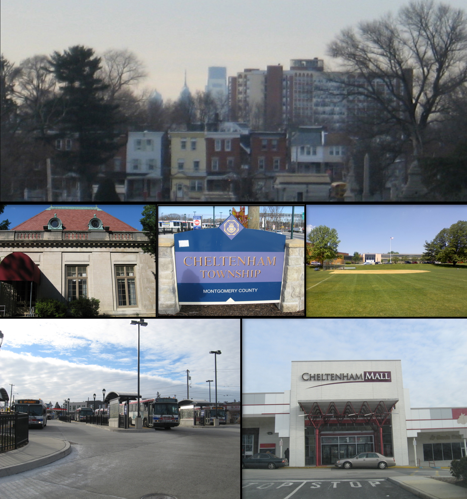 Collage of places in Wyncote, Cheltenham Township, Pennsylvania.